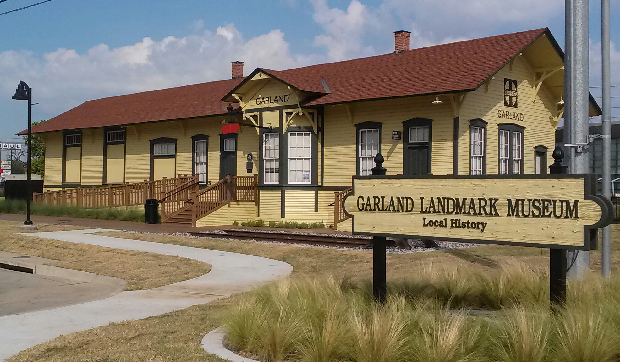 The Garland landmark museum